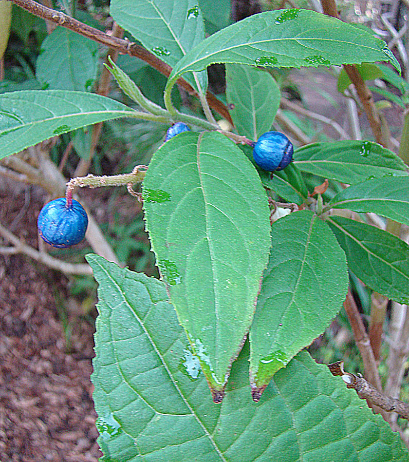 An East Asian species, here residing at UC Berkeley Botanical Gardens. In context at